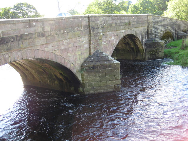 Paythorne Bridge, near to Paythorne, Lancashire, Great Britain.